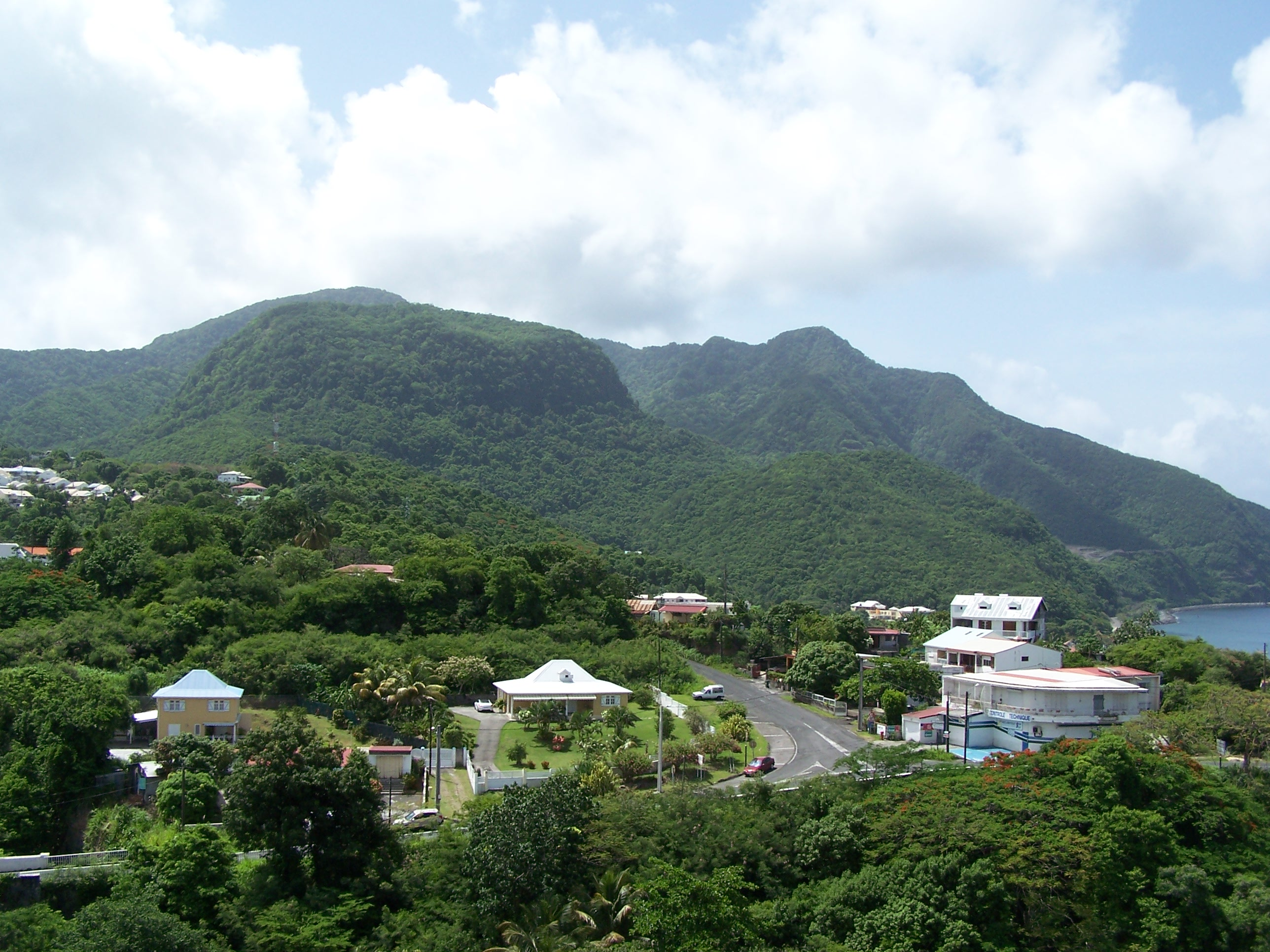 View of the Monts Caraïbes in Guadeloupe from the fort Delgrès (background from left to right : Morne Vent Soufflé at 687 m, Morne Grande Voûte at 556 m, Morne la Class ; front : Morne Griselle).